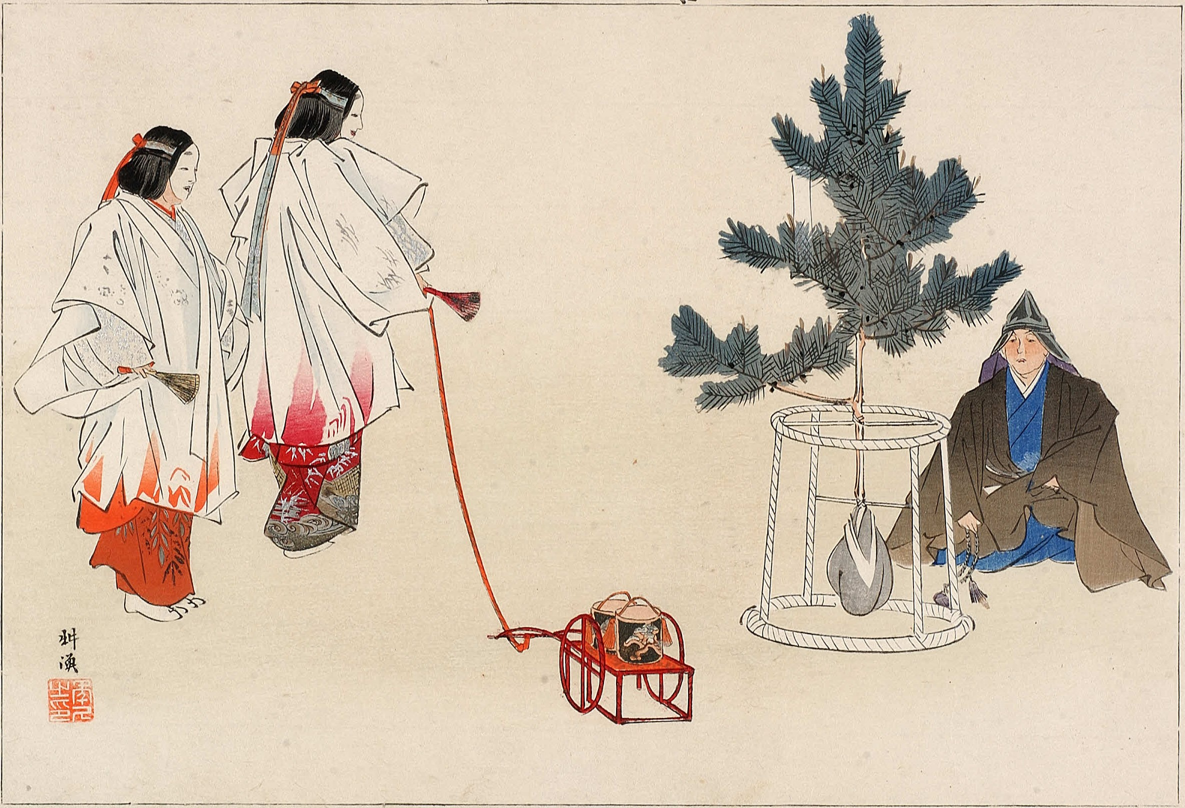 Scene form Nô-play "Matsukaze"